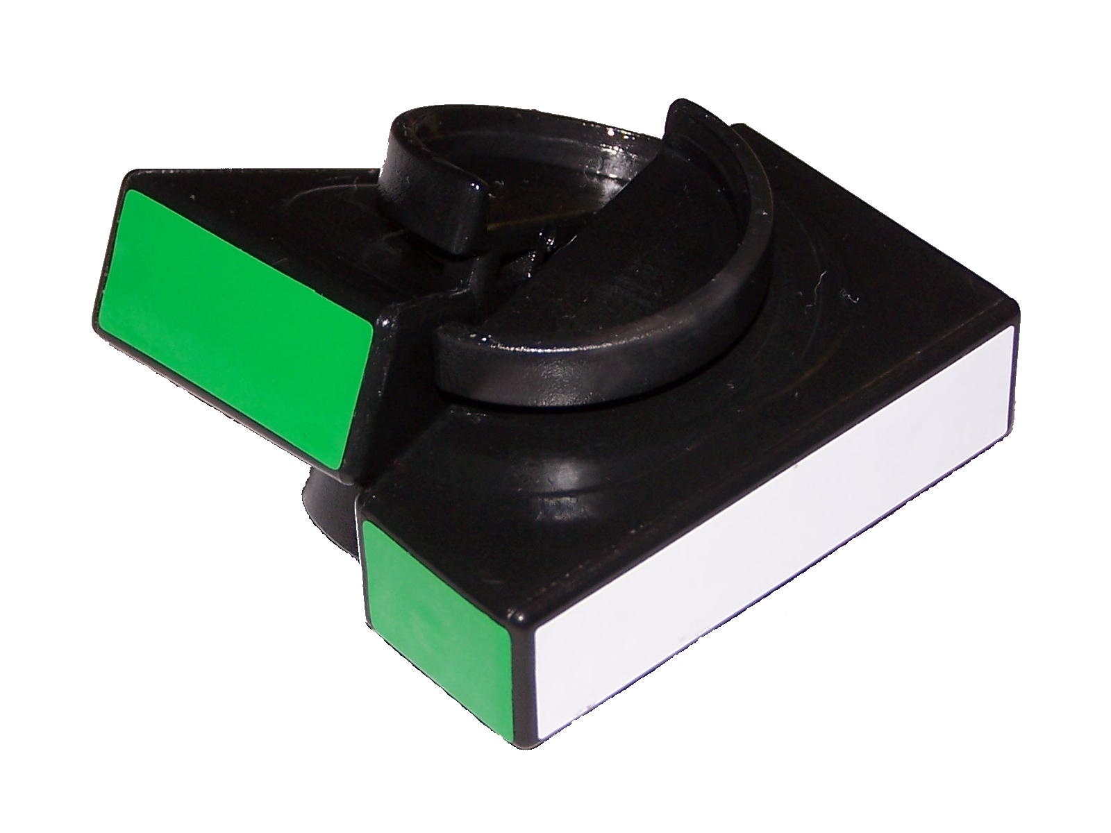 core of a Square One